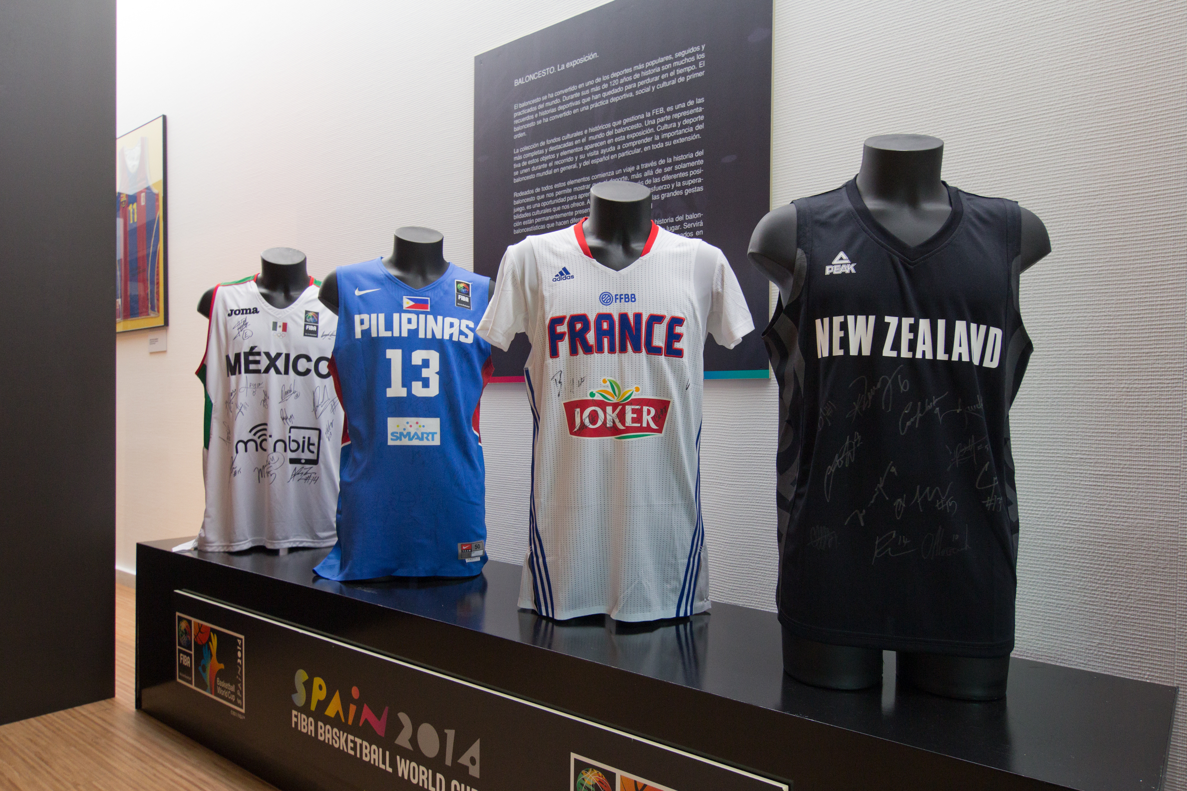 FIBA Hall of Fame, Alcobendas, Community of Madrid, Spain.